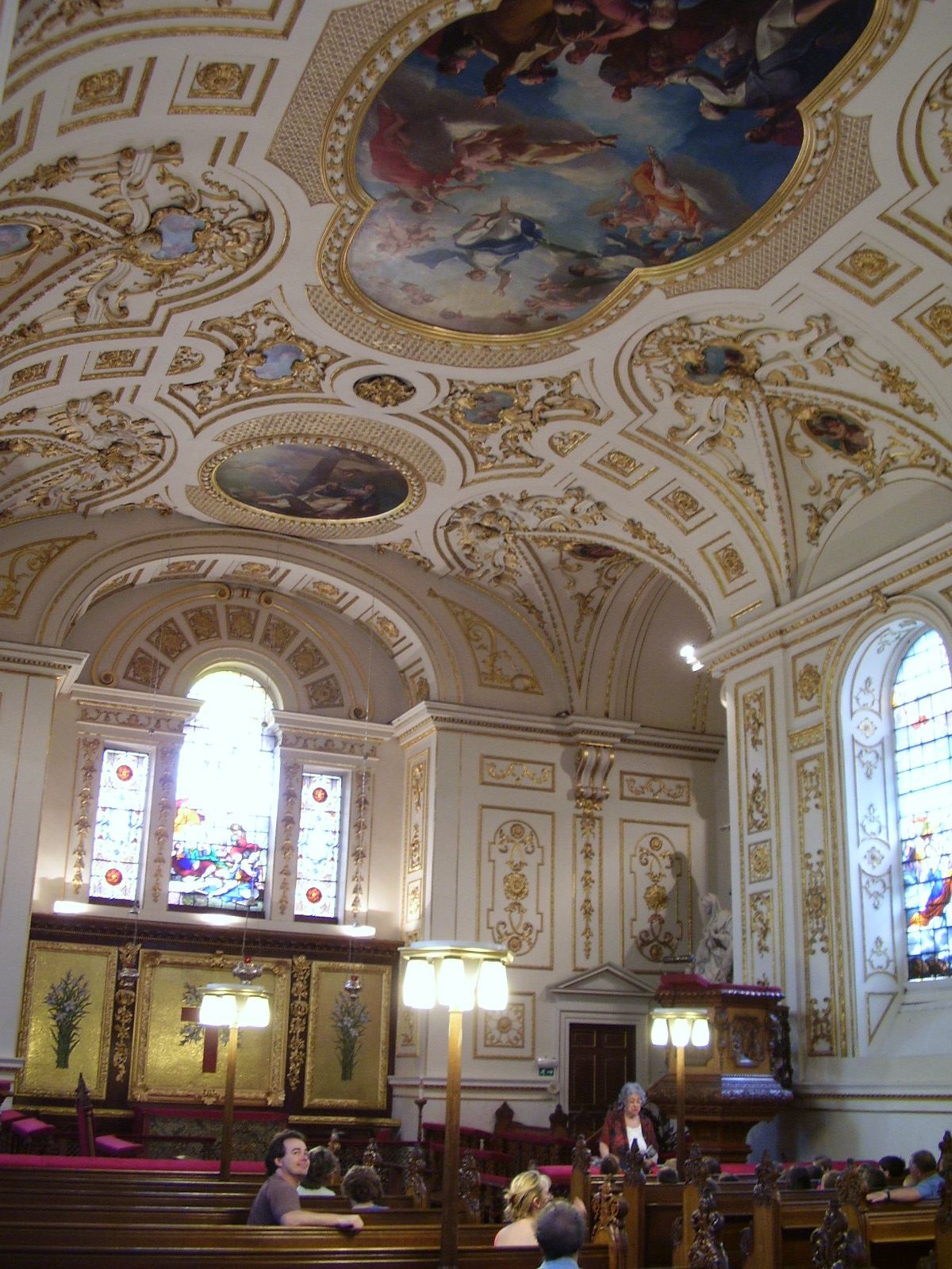 Inside St Michael and All Angels parish church, Great Witley, Worcestershire